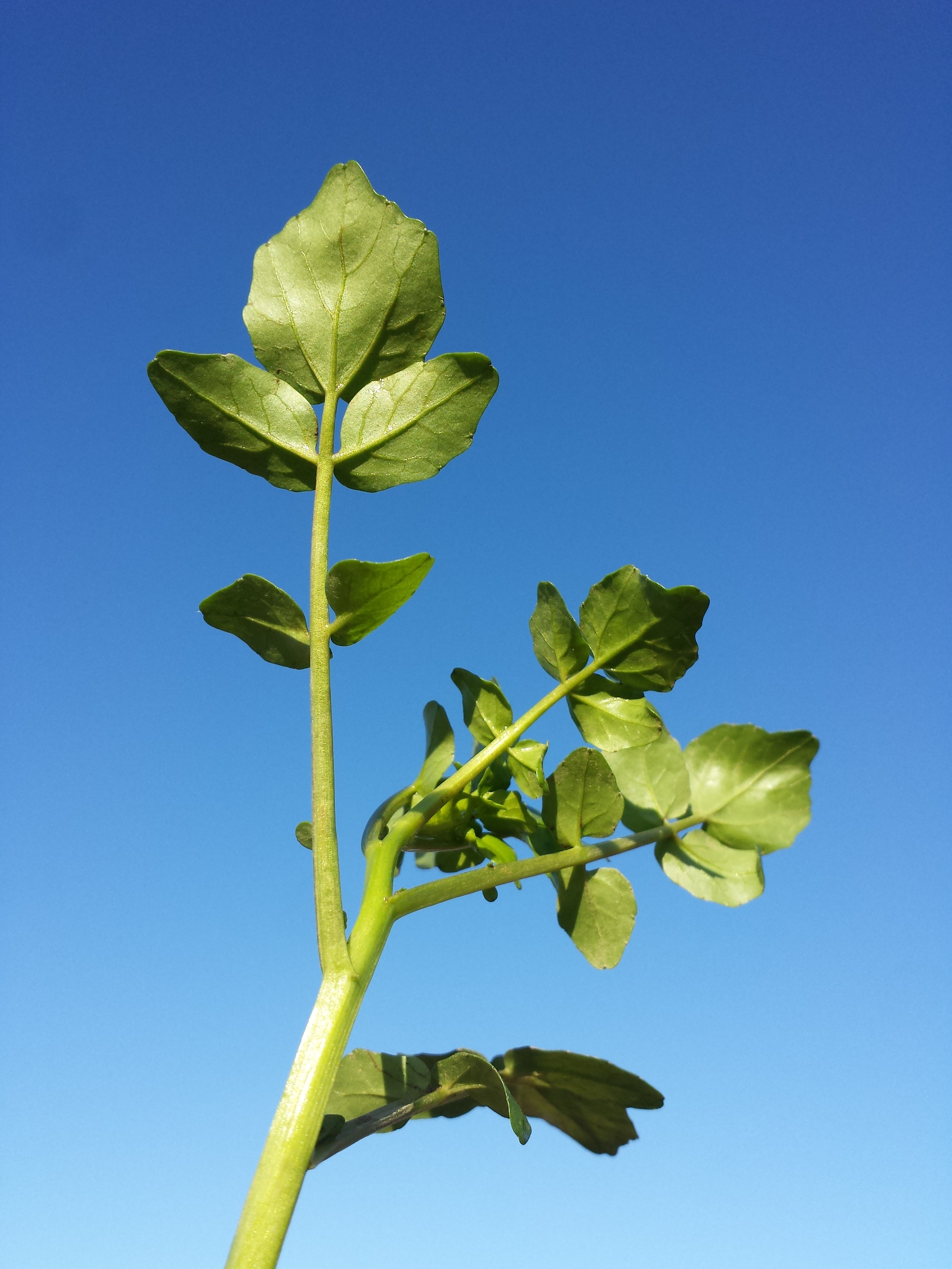 Stem with leaf Taxonym: Nasturtium officinale ss Fischer et al. EfÖLS 2008 ISBN 978-3-85474-187-9 Location: Senningbach next to Hatzenbach, district Korneuburg, Lower Austria - 180 m a.s.l. Habitat: stream